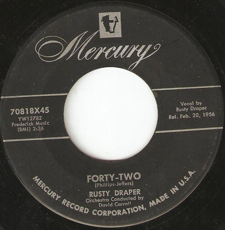 Forty-Two by Rusty Draper, Mercury 1956.